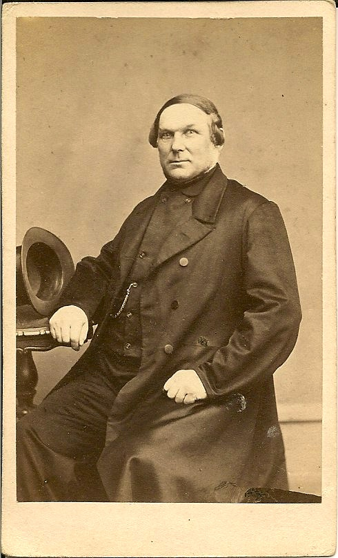 Swedish politician from late nineteenth century